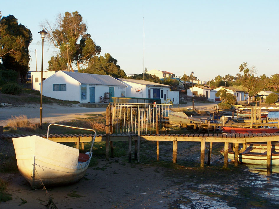 Velddrif, South Africa